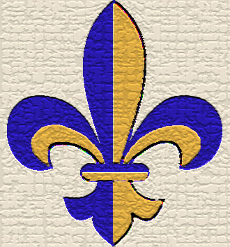 Textured fleur-de-lis with Louisville colors, made using public domain Image:Fleurdelis.jpg. I release my version as public domain as well.